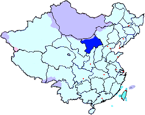 Created by Pryaltonian for maps of Mainland provinces of the Republic of China. Adapted from